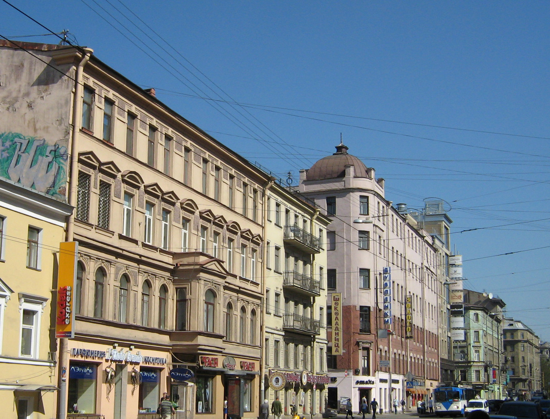 Bolshoy avenue (Petrograd side, Saint-Petersburg, Russia), bldgs. 52, 54 (architects Pyotr Osipov, 1874, Vladimir Kourzanoff, 1893 and 1898-1902, and Custav von Goli, 1904-1909), and bldg. 56, corner of Gatchinskaya street, 1 (architects Otton Ignatovich, 1899, Ilya Kaliberda, 1904, and Iosif Dolginov, 1911).